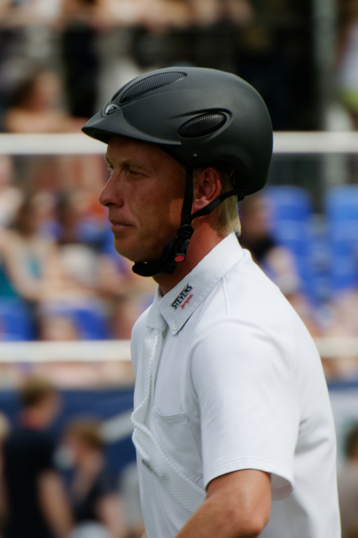 Internationales Pfingstturnier Wiesbaden 2014 The making of this document was supported by the Community-Budget of Wikimedia Germany.